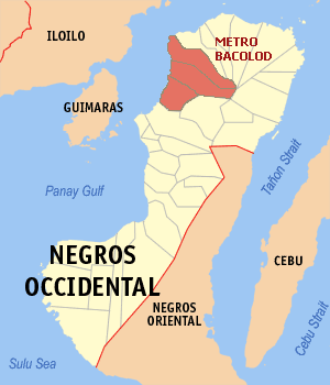 Metro Bacolod